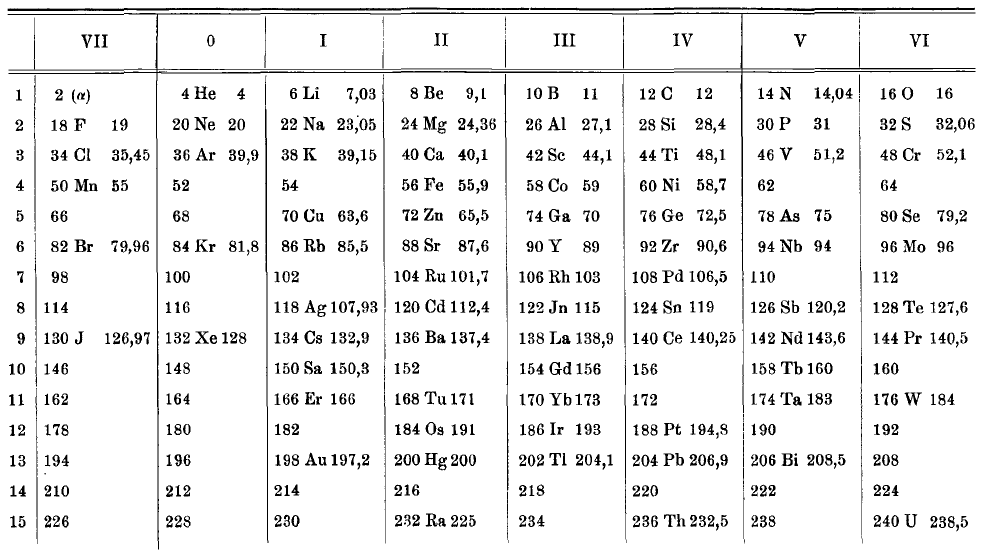 The version of periodic table created by Dutch amateur physicist Antonius van den Broek in 1907